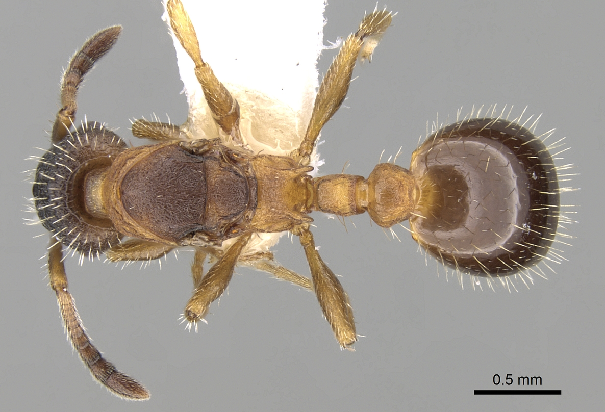 Leptothorax goesswaldi is a species of ants belonging to the subfamily Myrmicinae